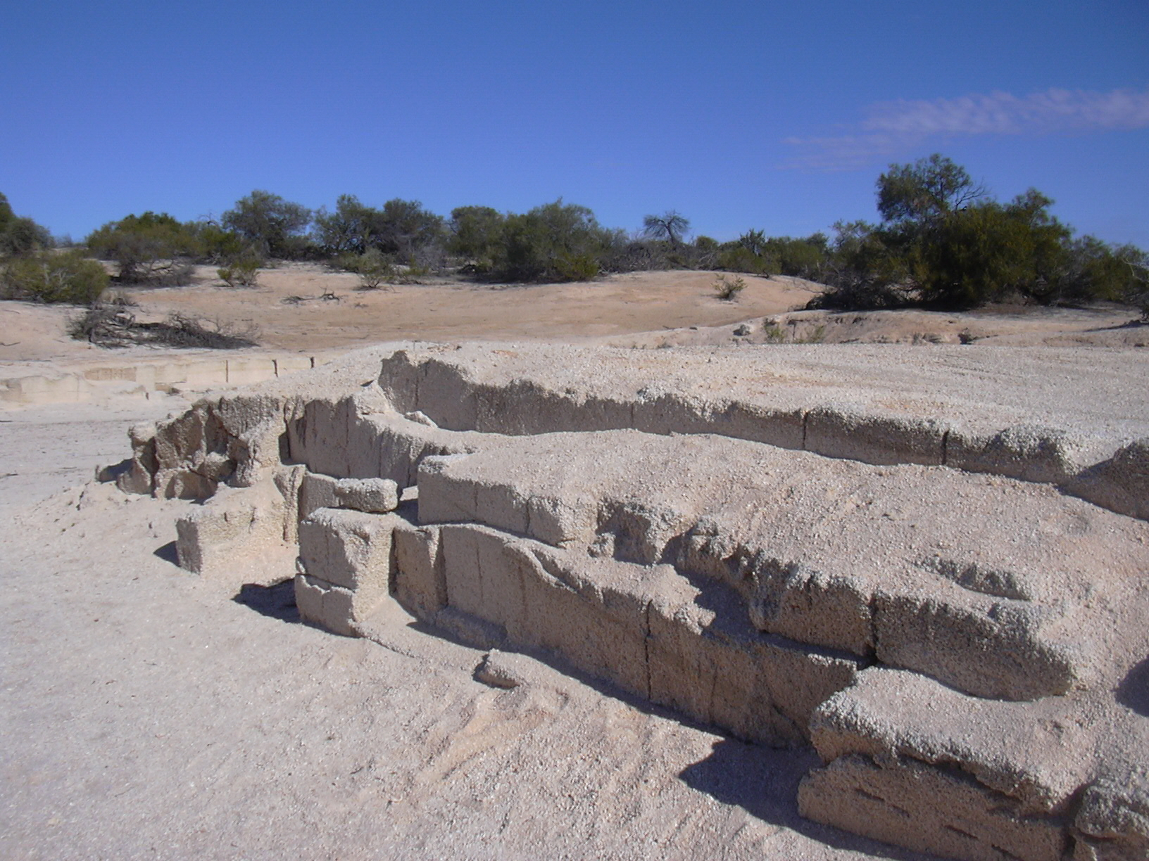 Shell quarry at Hamilton Pool, Shark Bay/Western Australia